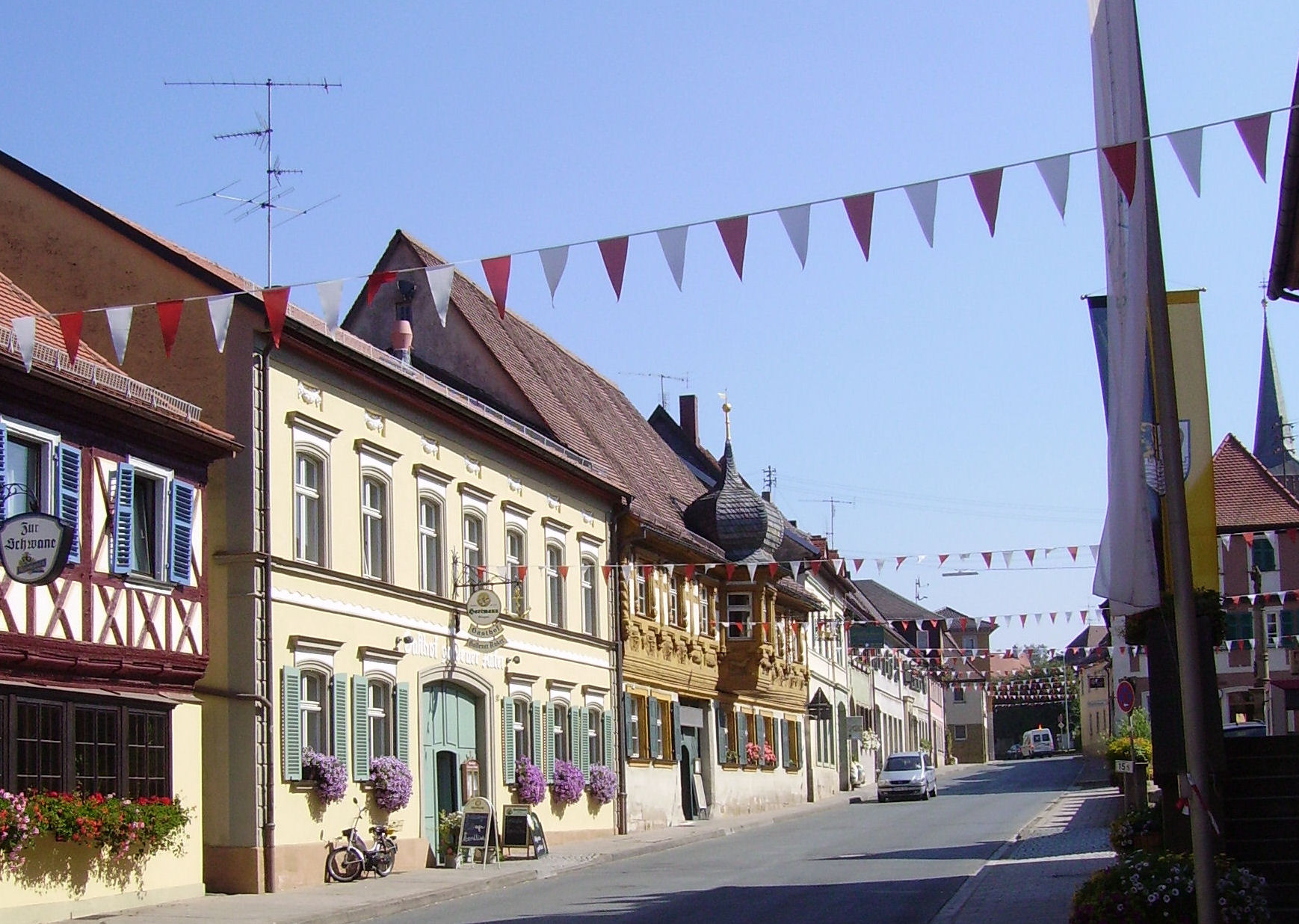 Description: Scheßlitz near Bamberg (Franconia) Source: own photography Date: August 2005 Author: --Immanuel Giel 09:38, 14 September 2005 (UTC) Other versions: none